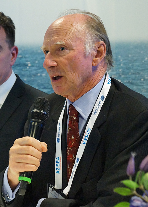 Irvine Laidlaw, Baron Laidlaw - Scottish businessman, former member of House of Lords, and of the wealthiest people in the UK - at European Wind Energy Association offshore event "EWEA Offshore 2015" in Copenhagen, Denmark, March 2015